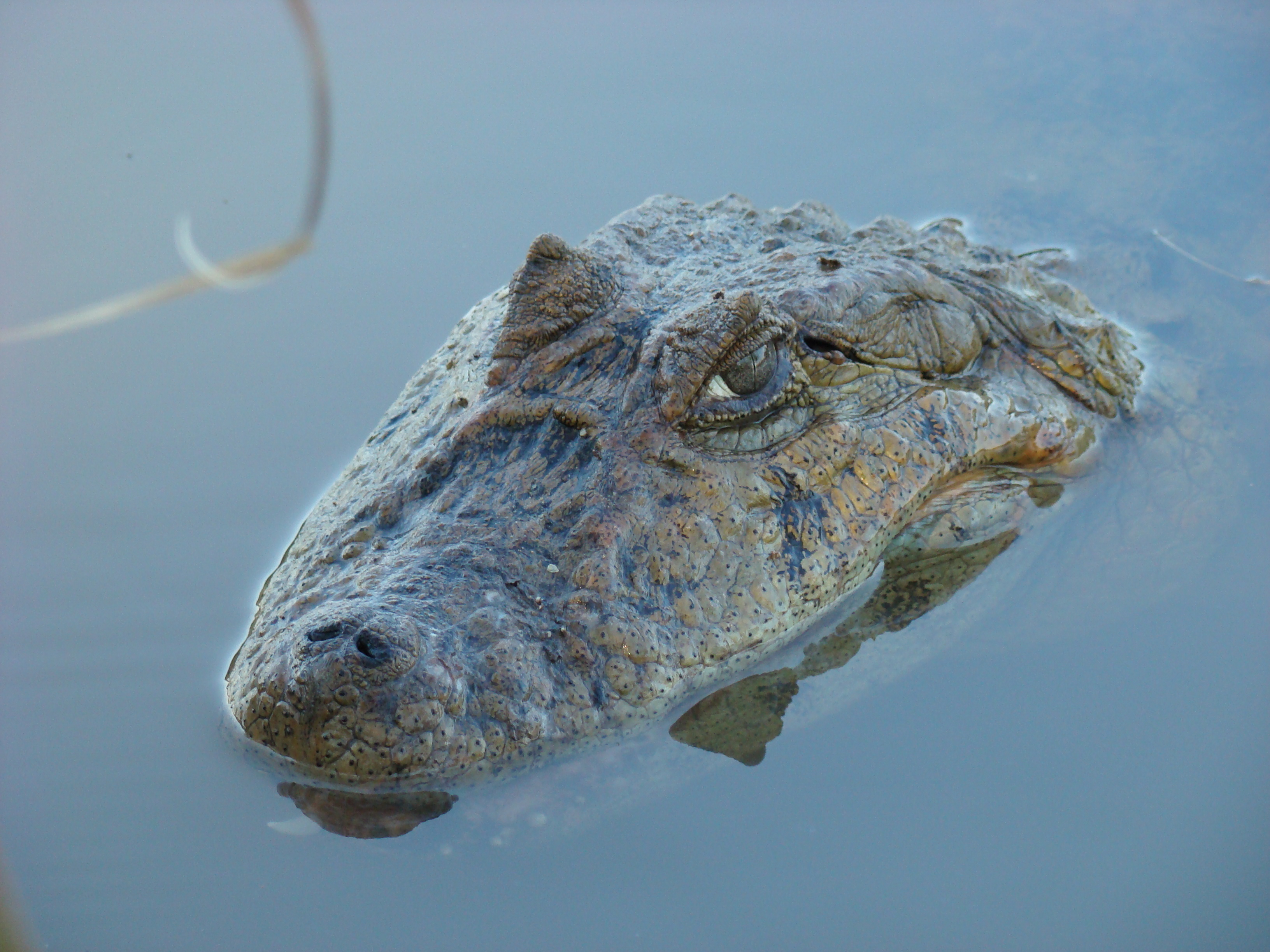 Caiman latirostris